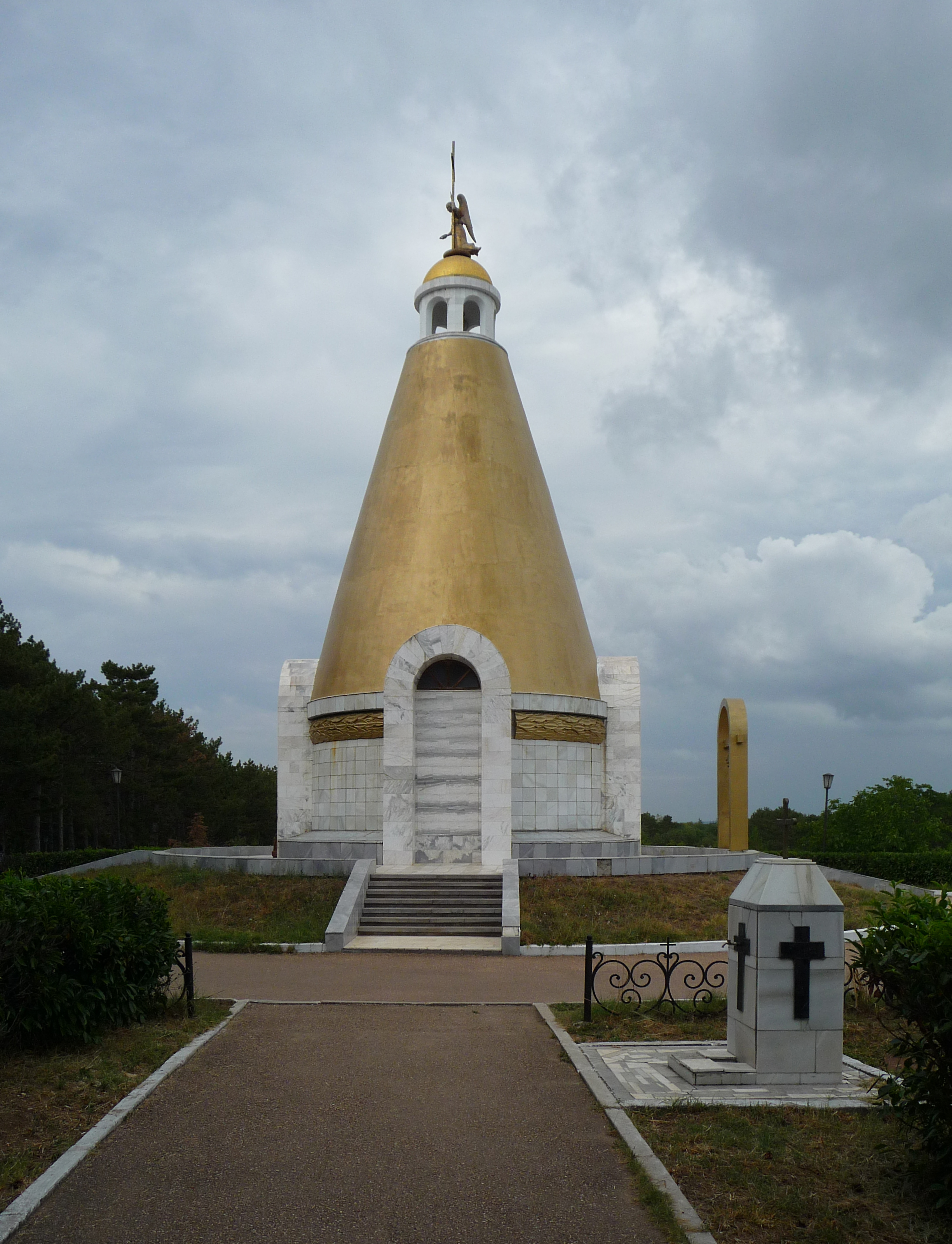 St. George's orthodox church. This church built in memory of fallen soldiers. Sapun Mountain Memorial complex near Sevastopol.